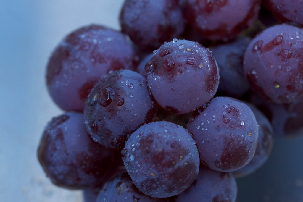 Red Grapes with some water sprayed